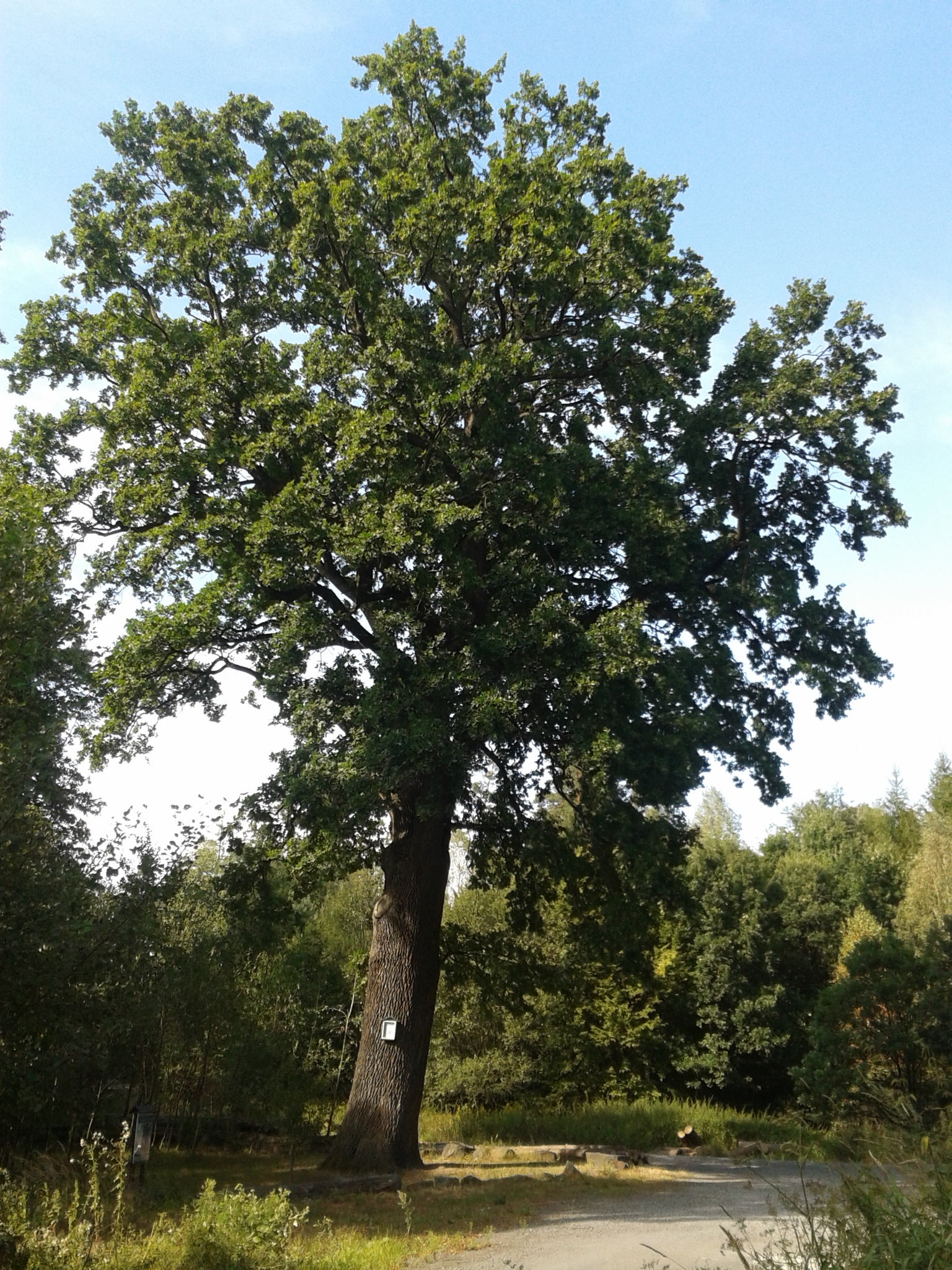 Dub letní u Pusté Polomi (pořízeno: srpen 2015) (výška 28m, obvod kmenu 537cm)